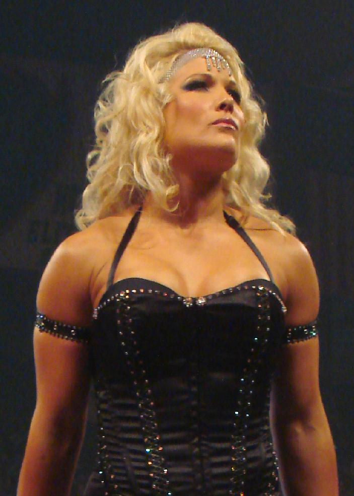 Beth Phoenix in No Mercy 2007